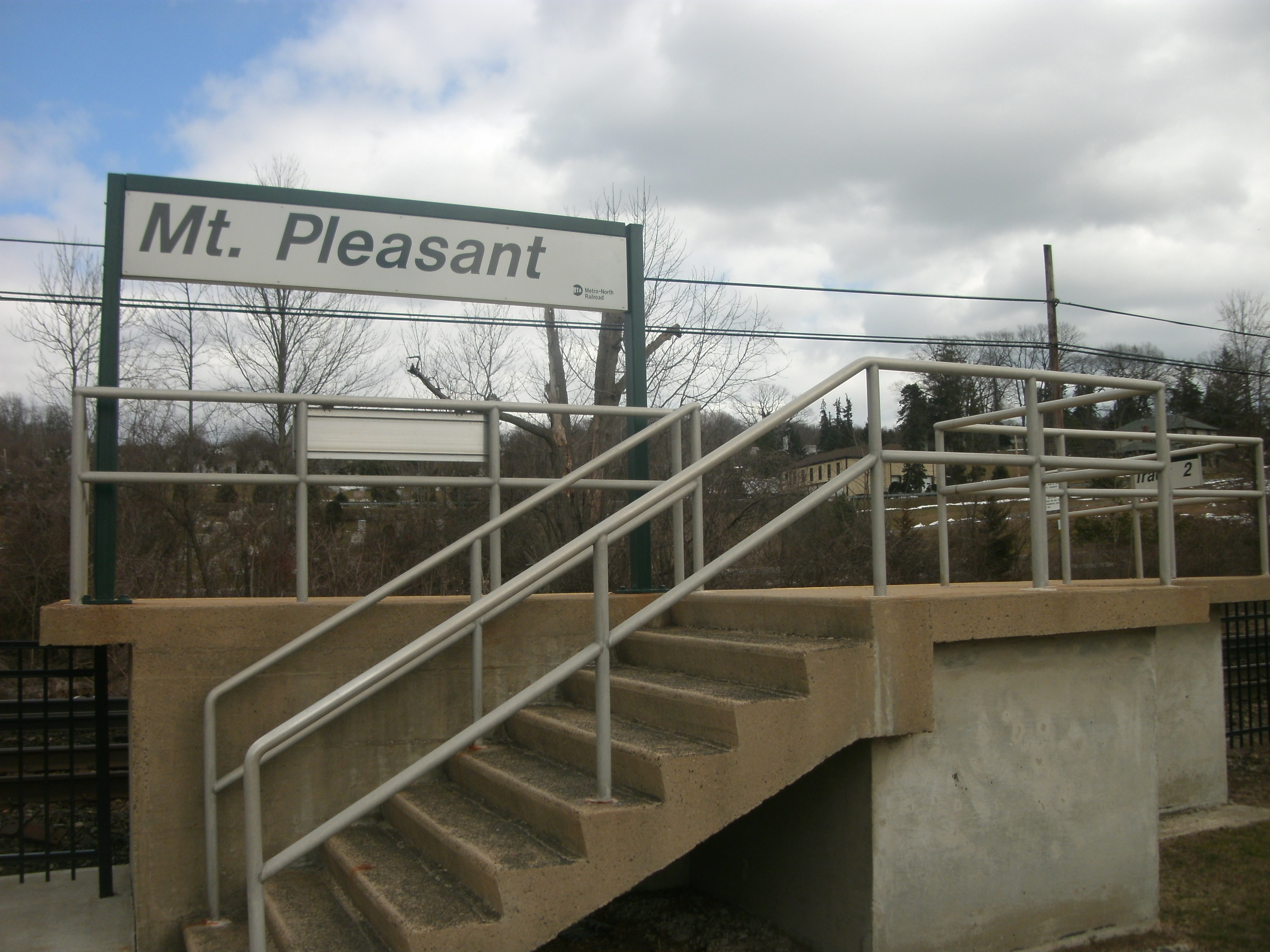 Mount Pleasant station on the inbound direction.